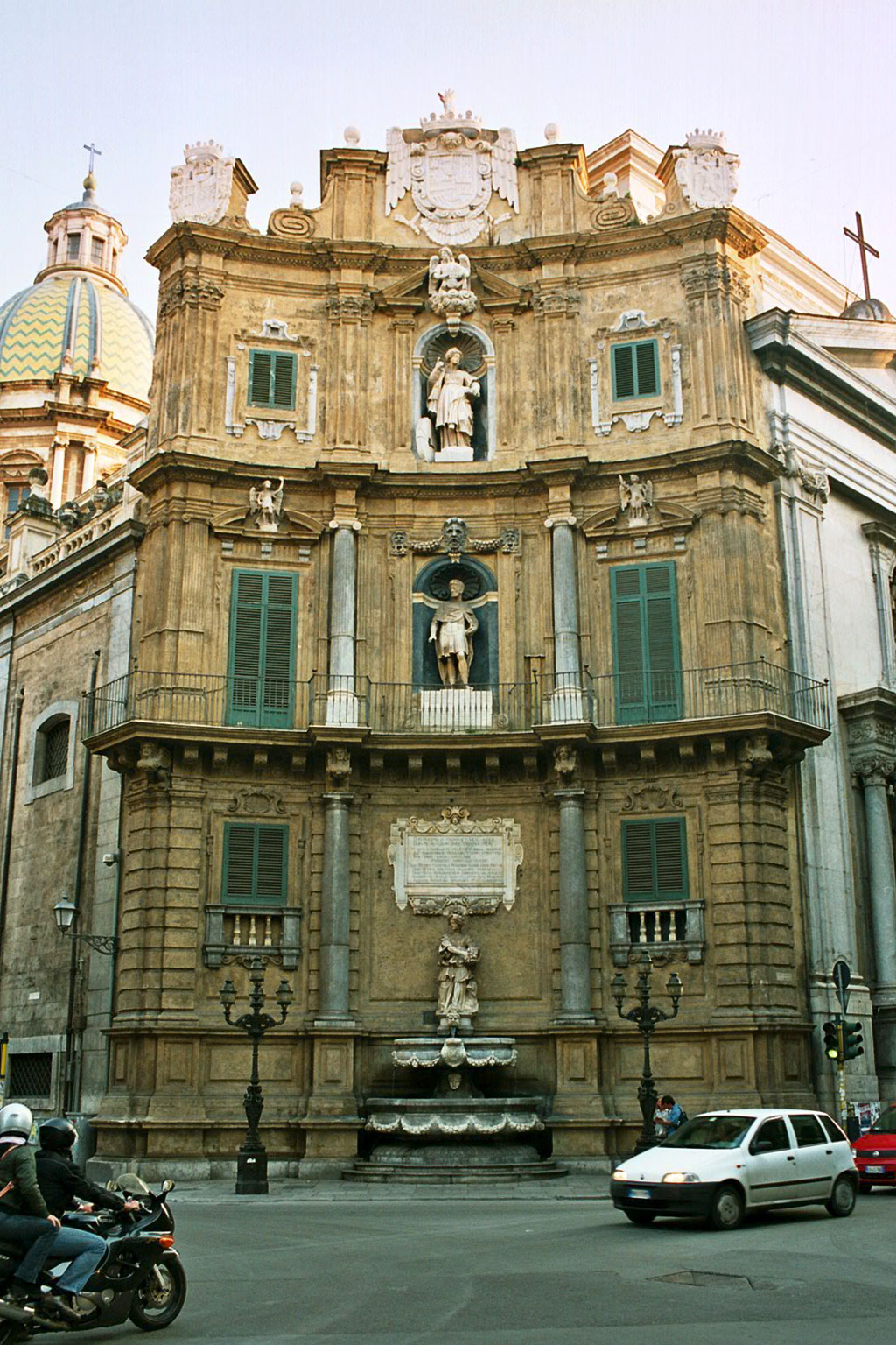 Quattro Canti, Palermo Baroque facade at the sout-west corner and cupola of San Giuseppe dei Teatini